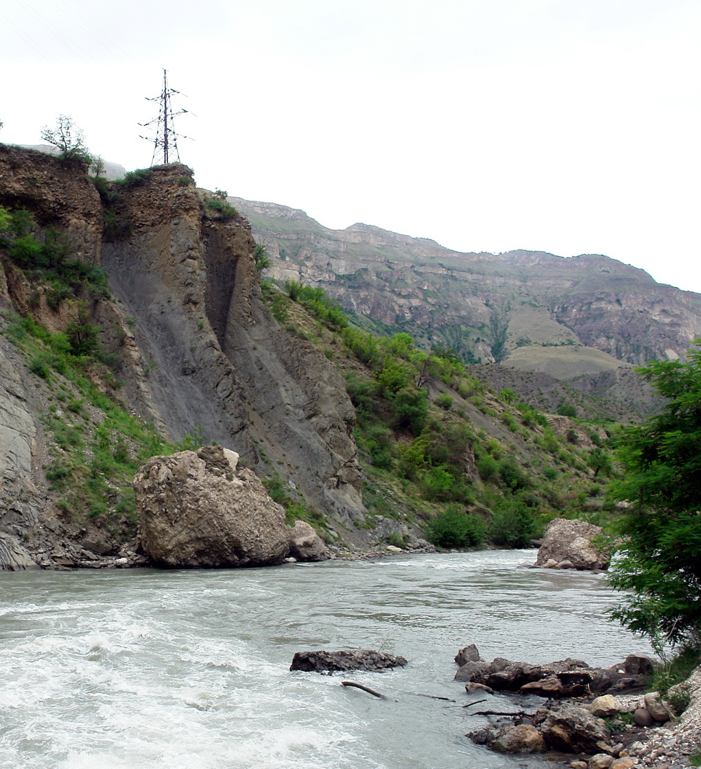 River Karakoisu, Dagestan